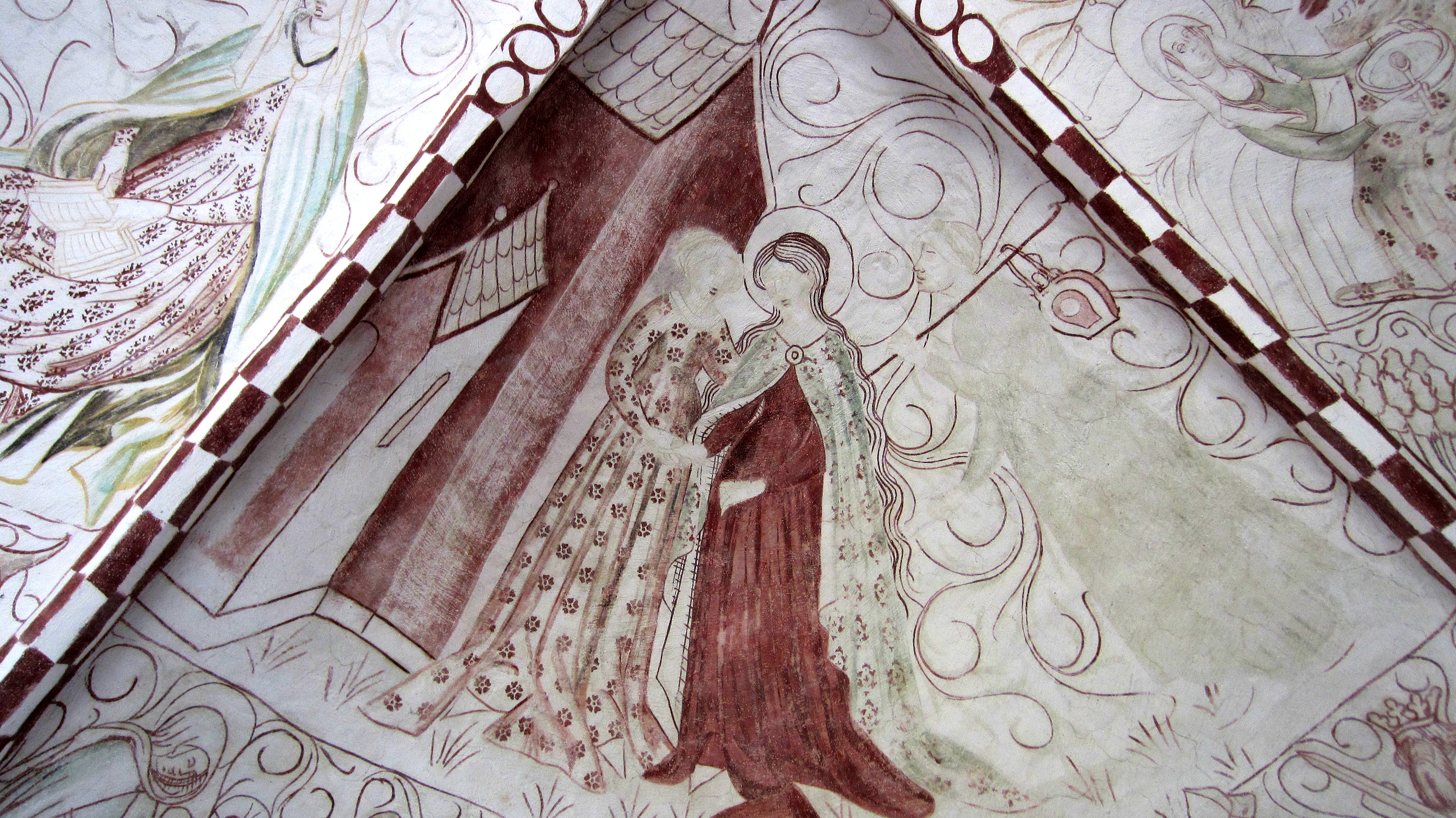 Wall paintings from about 1440 in Brönnestad church, Scania, Sweden.